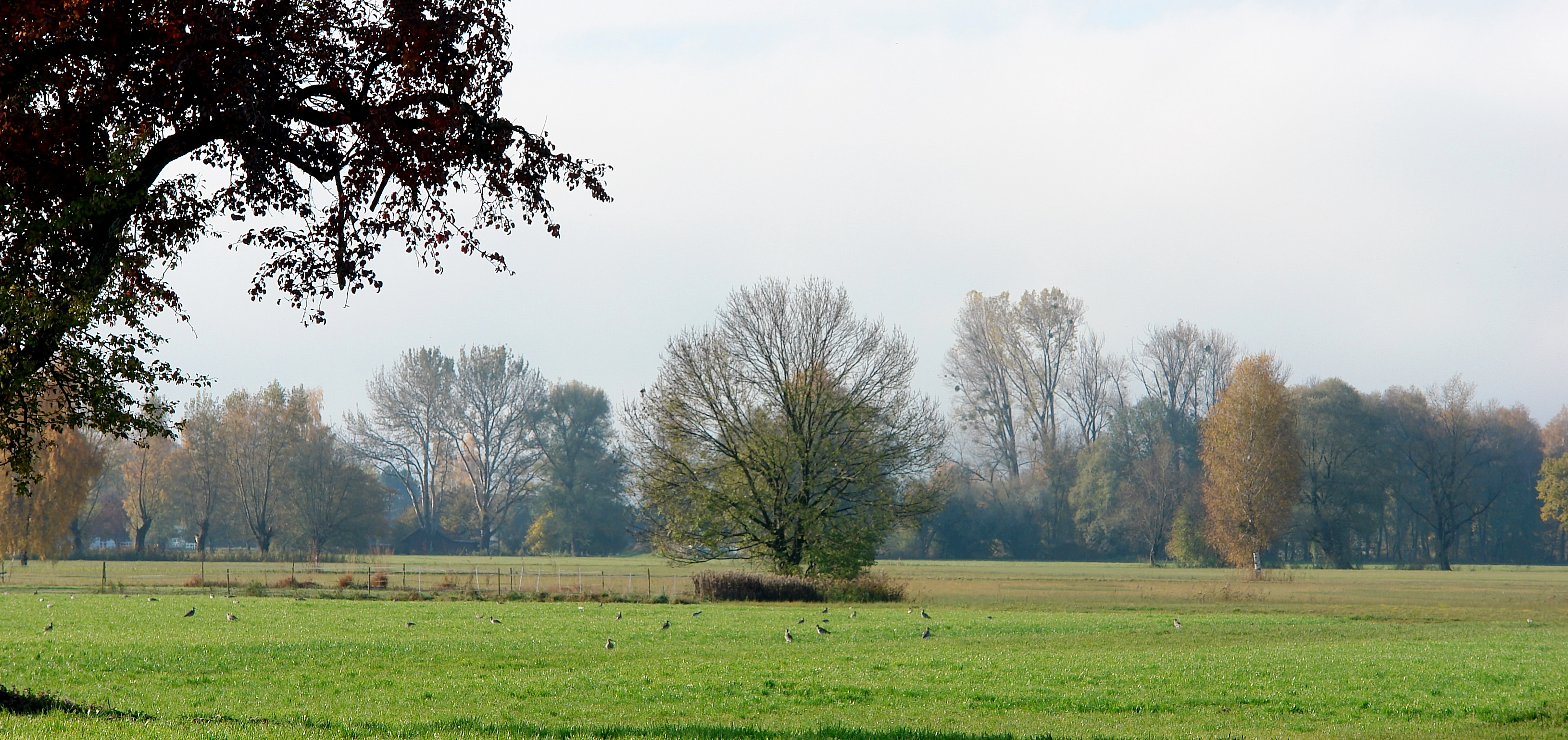 Alpine Rhine Valley landscape, at the upper Rhine's mouth at Lake Constance, Switzerland. In the foreground a flock of Eurasian curlew (Numenius arquata).